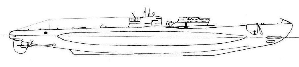 Italian submarine Leonardo da Vinci, type Marconi end midget submarine, type CA of WWII. Scanned drawing.